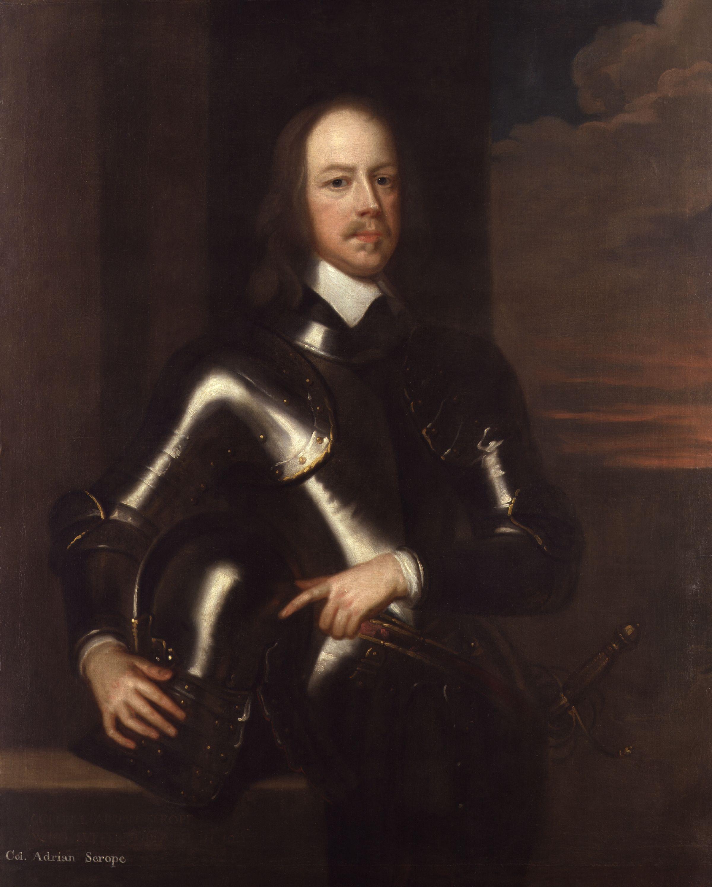 Colonel Adrian Scrope (c. 1601 - 17 October 1660) was the twenty seventh of the fifty nine Commissioners who signed the Death Warrant of King Charles I., Painting by Robert Walker (died 1658). All images in this batch have been confirmed as author died before 1939 according to the official death date listed by the NPG.